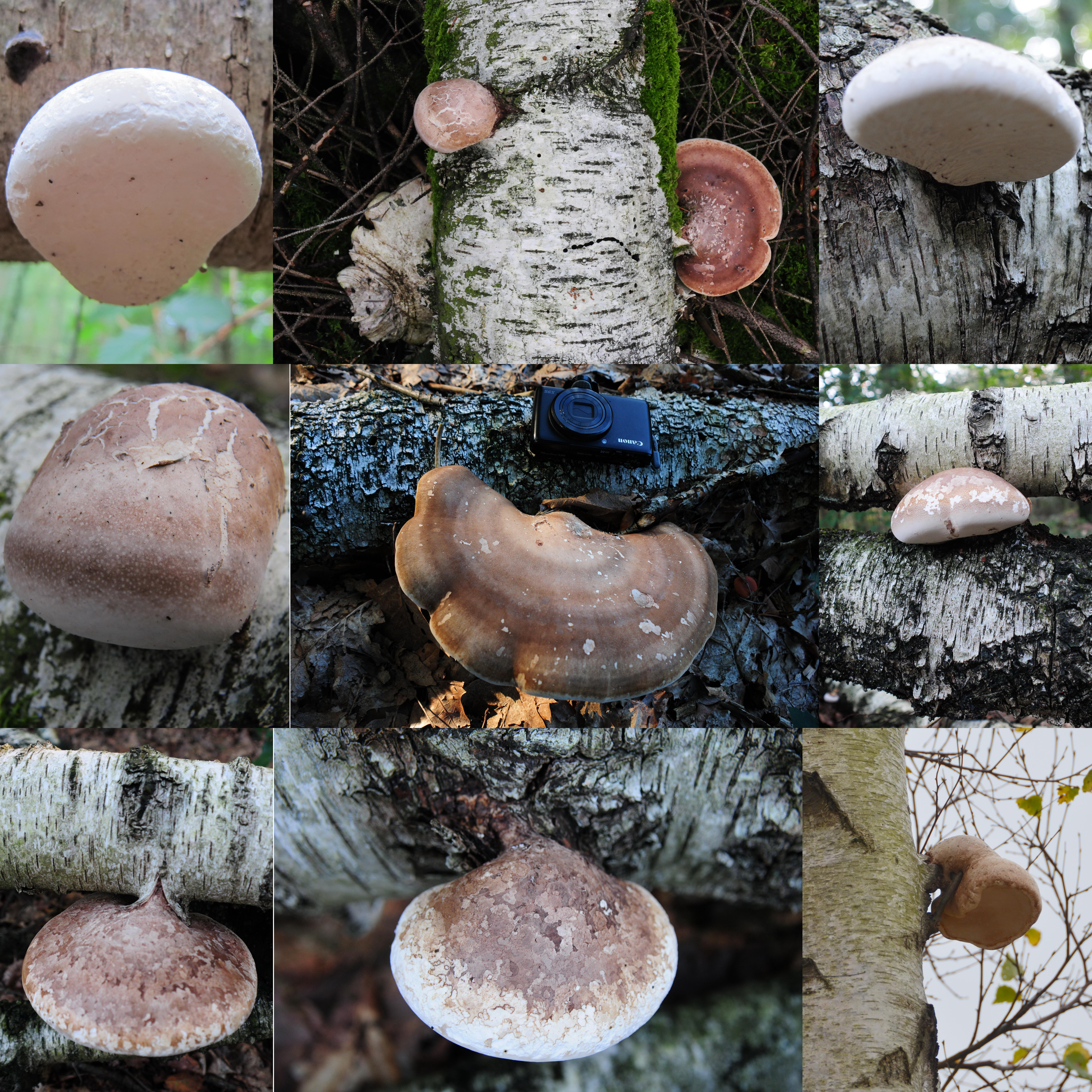 Variation in size and colour of the Piptoporus betulinus (Birch Polypore or Razorstrop Fungus or Birch Bracket, D= Birchenporling, F= Polypore du bouleau, NL= Berkenzwam), white spores, causes brownrot at Schaarsbergen forest